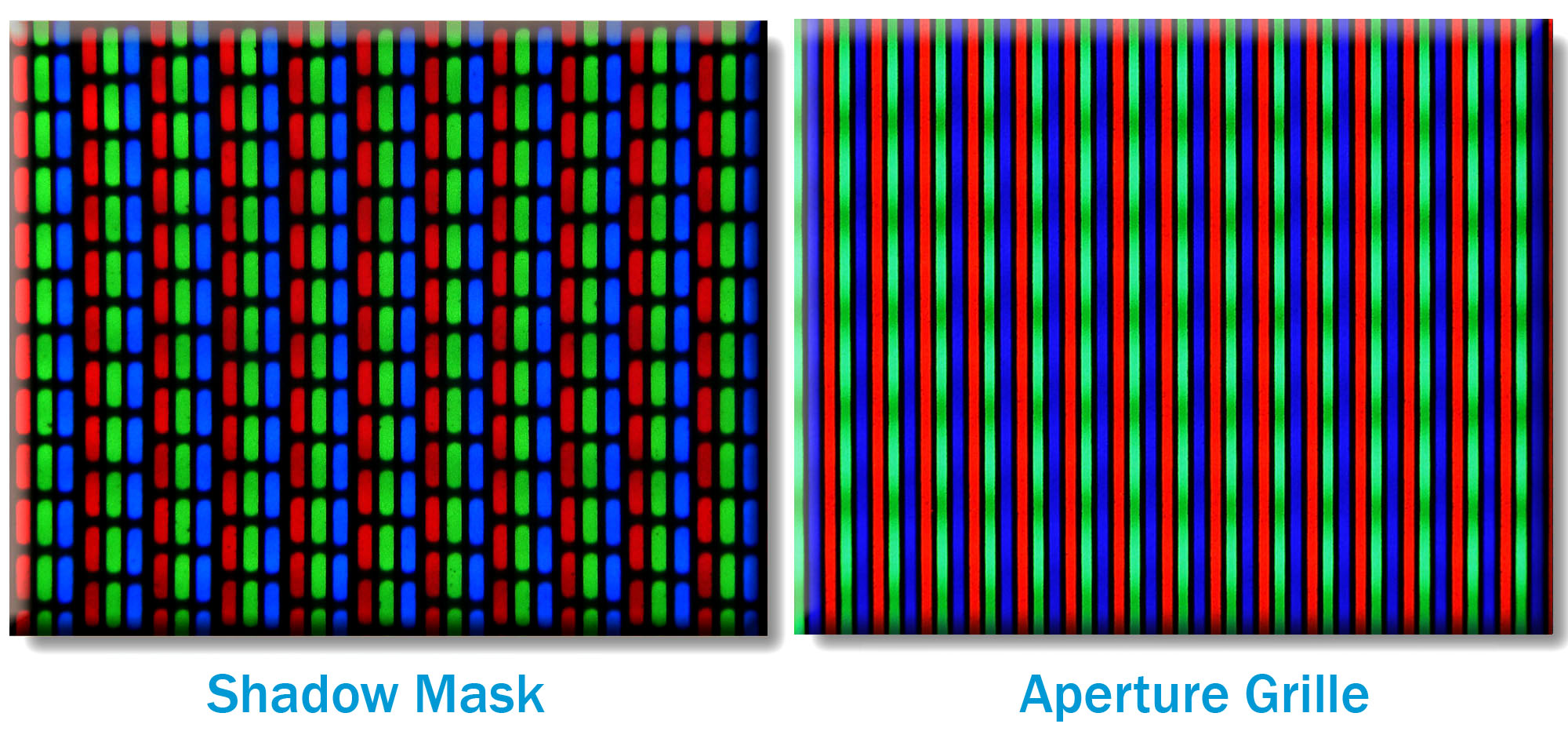 Demonstrates the differences between a Shadow Mask display and an Aperture Grille display. Left: 21" shadow mask based TV CRT Display; Right: 25" aperture grille based television monitor (Sony KV-25FX20D) in close-up. Images are not to the same scale, but their pixels are shown approximately equal in size.